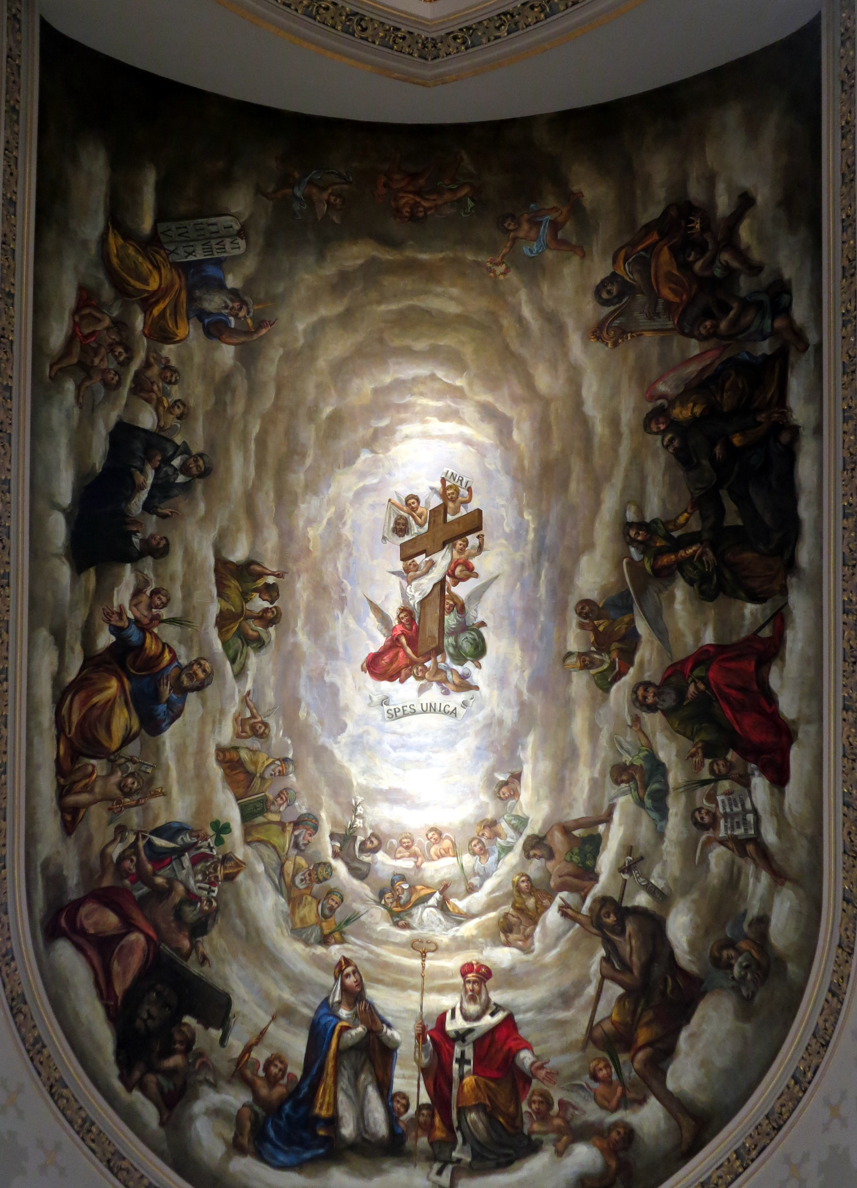 Basilica of the Sacred Heart (Notre Dame, Indiana) - interior, The Lady Chapel, mural, The Exaltation of the Holy Cross by Luigi Gregori, looking straight up